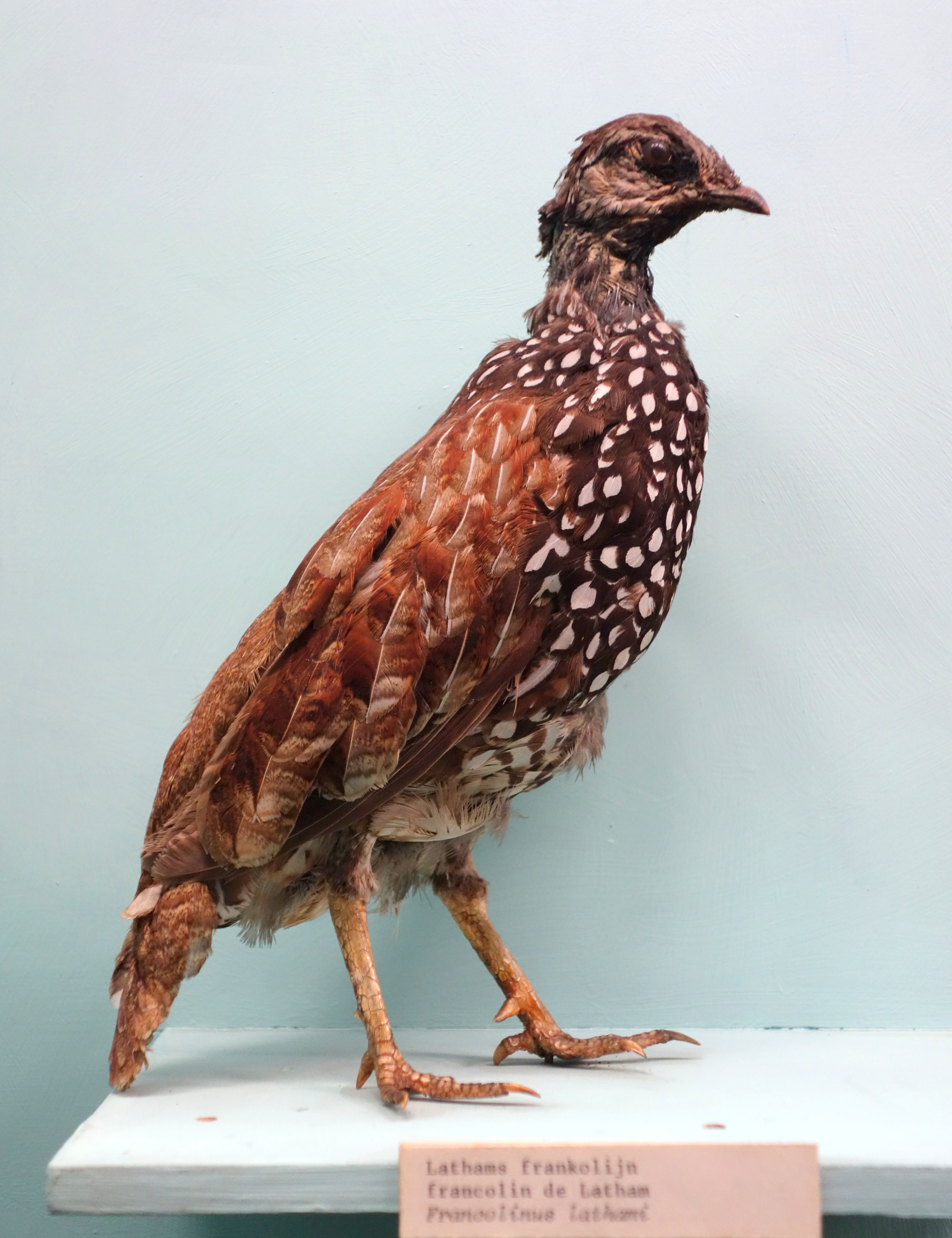 Exhibit in the Royal Museum for Central Africa, Tervuren, Belgium.